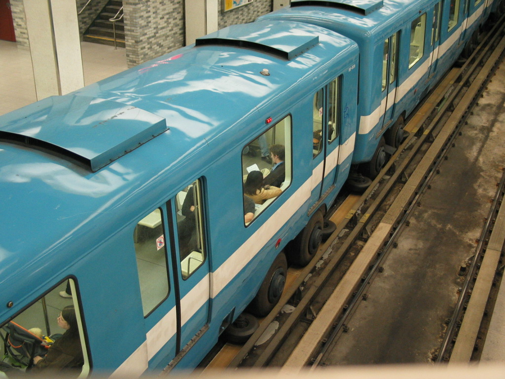 Montreal Metro train. A closer look on its rubber-tired wheels